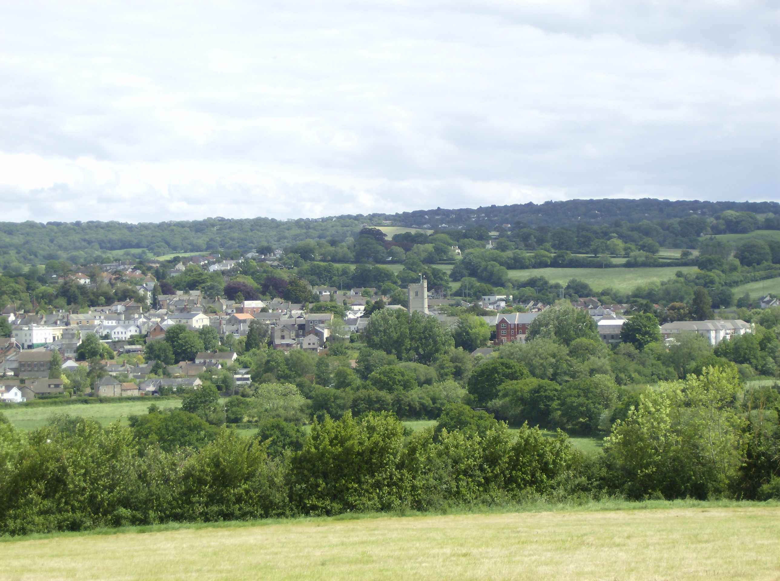 A panoramic view of Axminster Town.